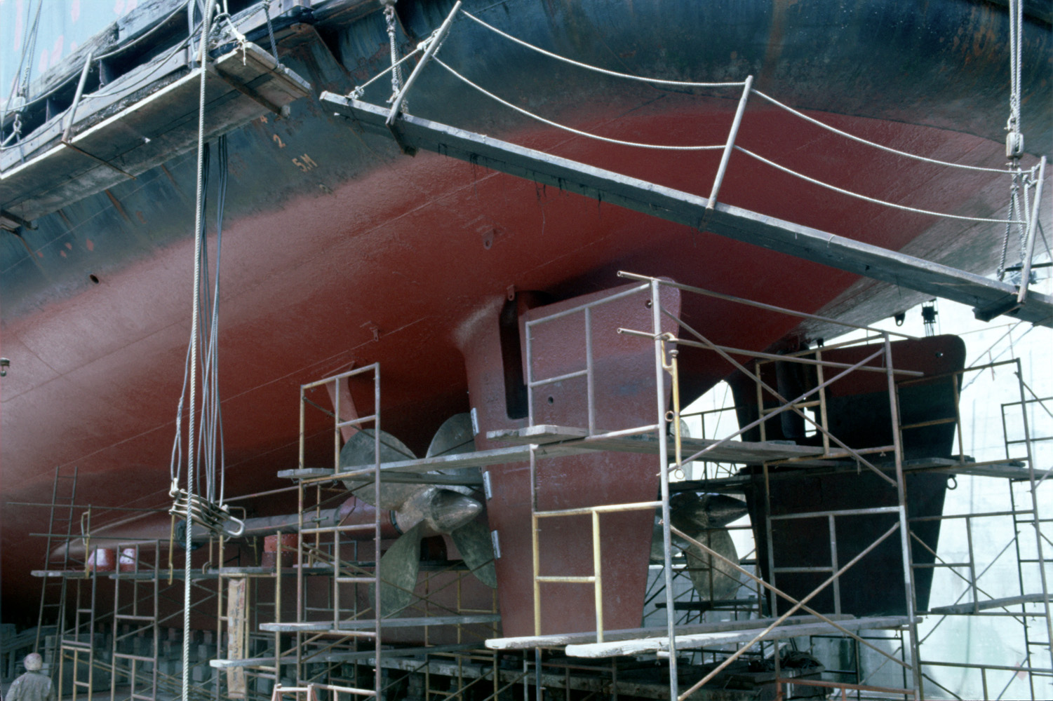 Twin Rudder and twin Screw of the MS HIYAMA MARU 1 in Hakodate Dock